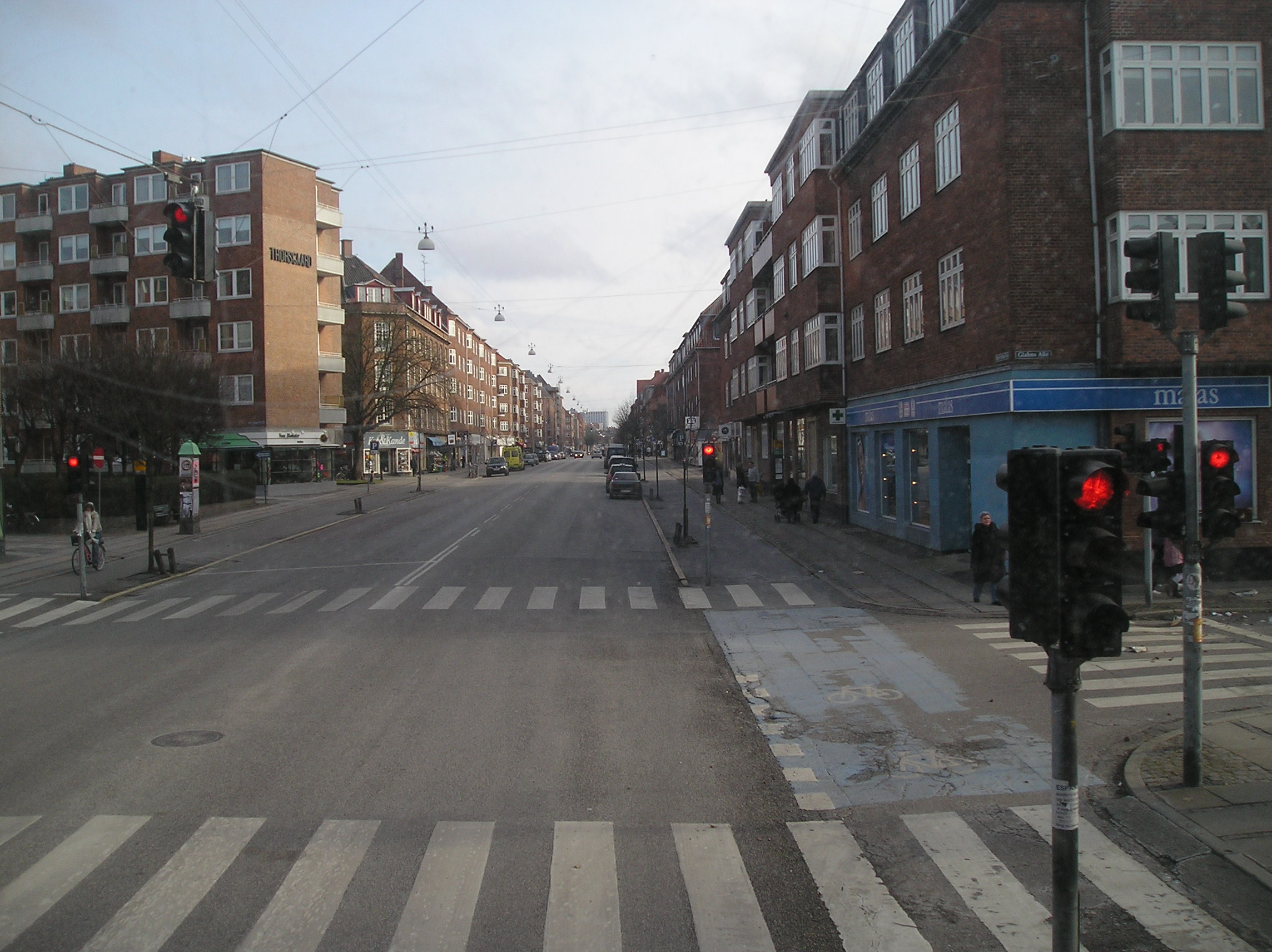 The street Peter Bangs Vej at Glahns Alle in Copenhagen (Frederiksberg). Direction towards Copenhagen city